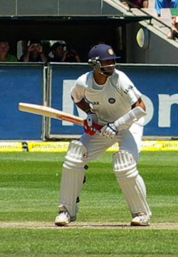 Modified photo of Rahul Dravid for Ethnic groups infobox